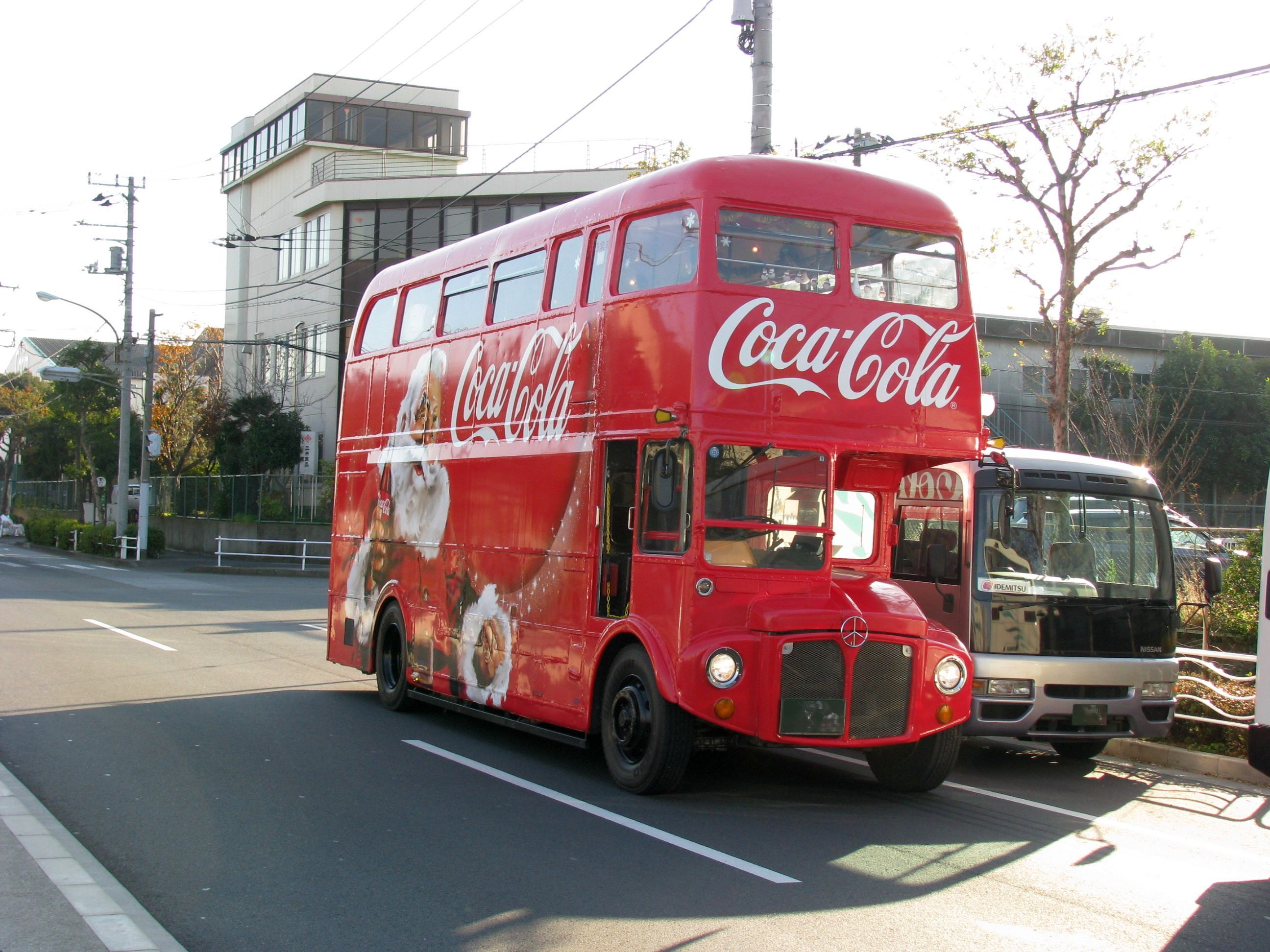 An advertisement of Coca-Cola to Buss's body, in Tokyo, Japan.